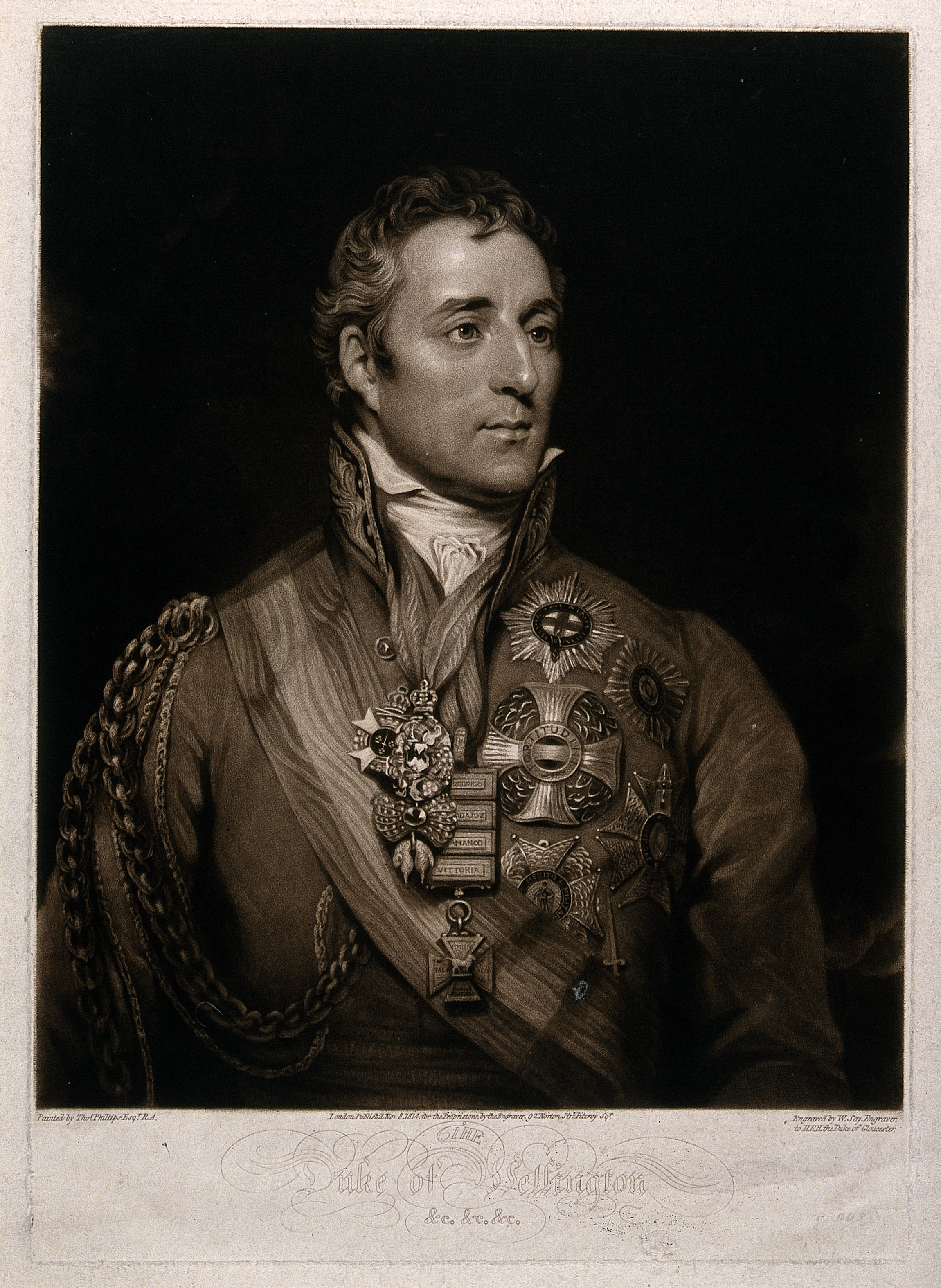 Arthur Wellesley, first Duke of Wellington. He rose to prominence in the Napoleonic Wars, eventually reaching the rank of field marshal. Iconographic Collections Keywords: Thomas Phillips; William Say; Uniform; Arthur Wellesley Wellington; Military Personnel; Military